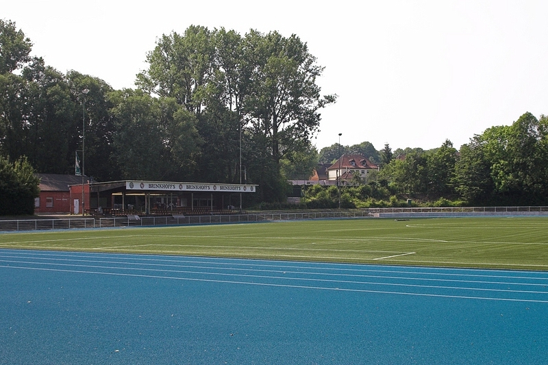 "Glueckauf"-Stadium in Lünen-Brambauer